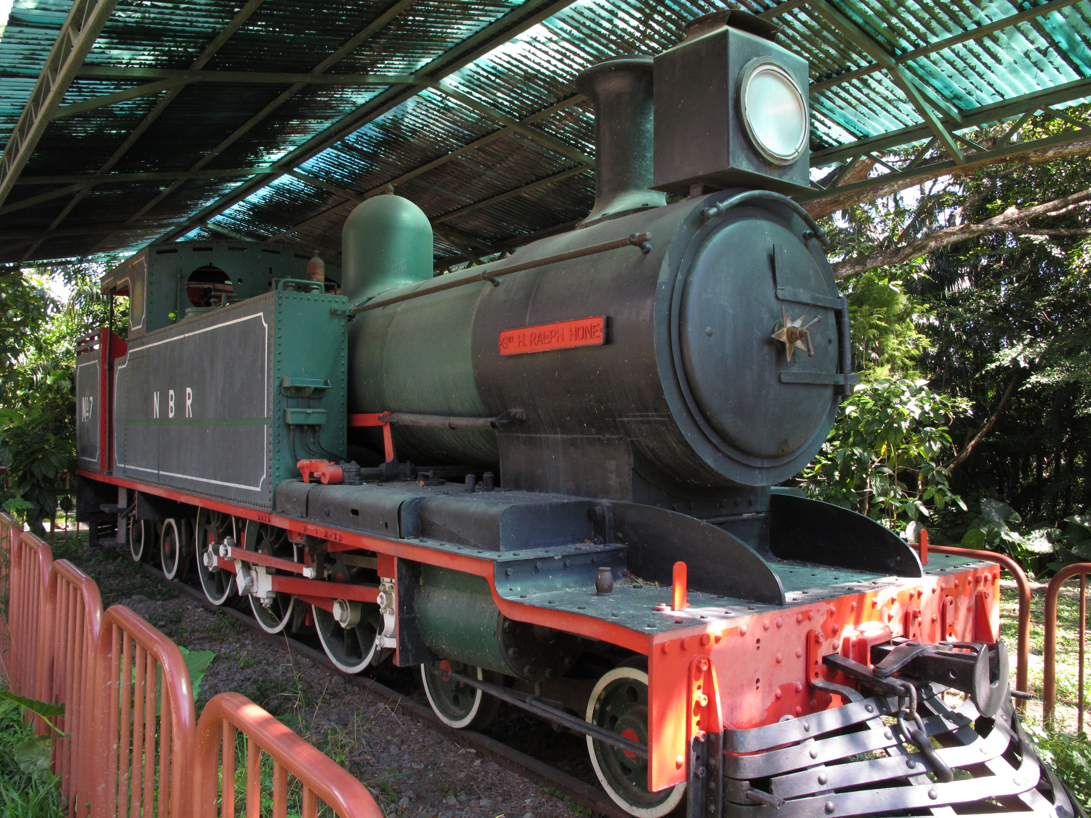 Locomotive Sir Ralph Hone" of the North Borneo Railways.Made by Hunslet Co Ltd, Leeds, England.Operated 1912-1957 for passenger trains and 1958 - 1968 for goods trains. Today exhibited at the Sabah State Museum in Kota Kinabalu.